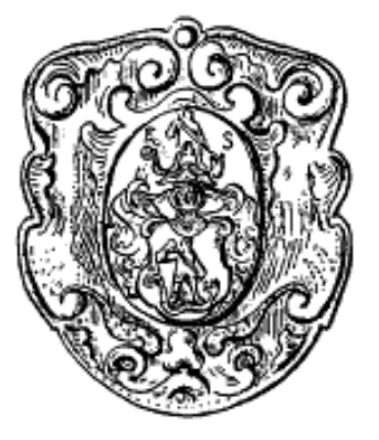 Coat of arms for Medieval Swedish noble families Slang and Muurla.